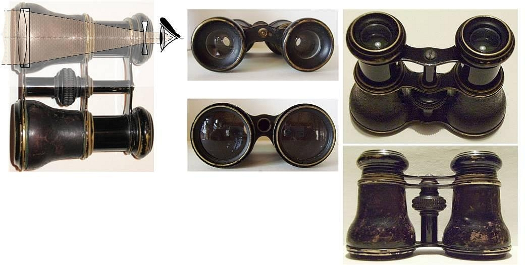 Galilean type binocular